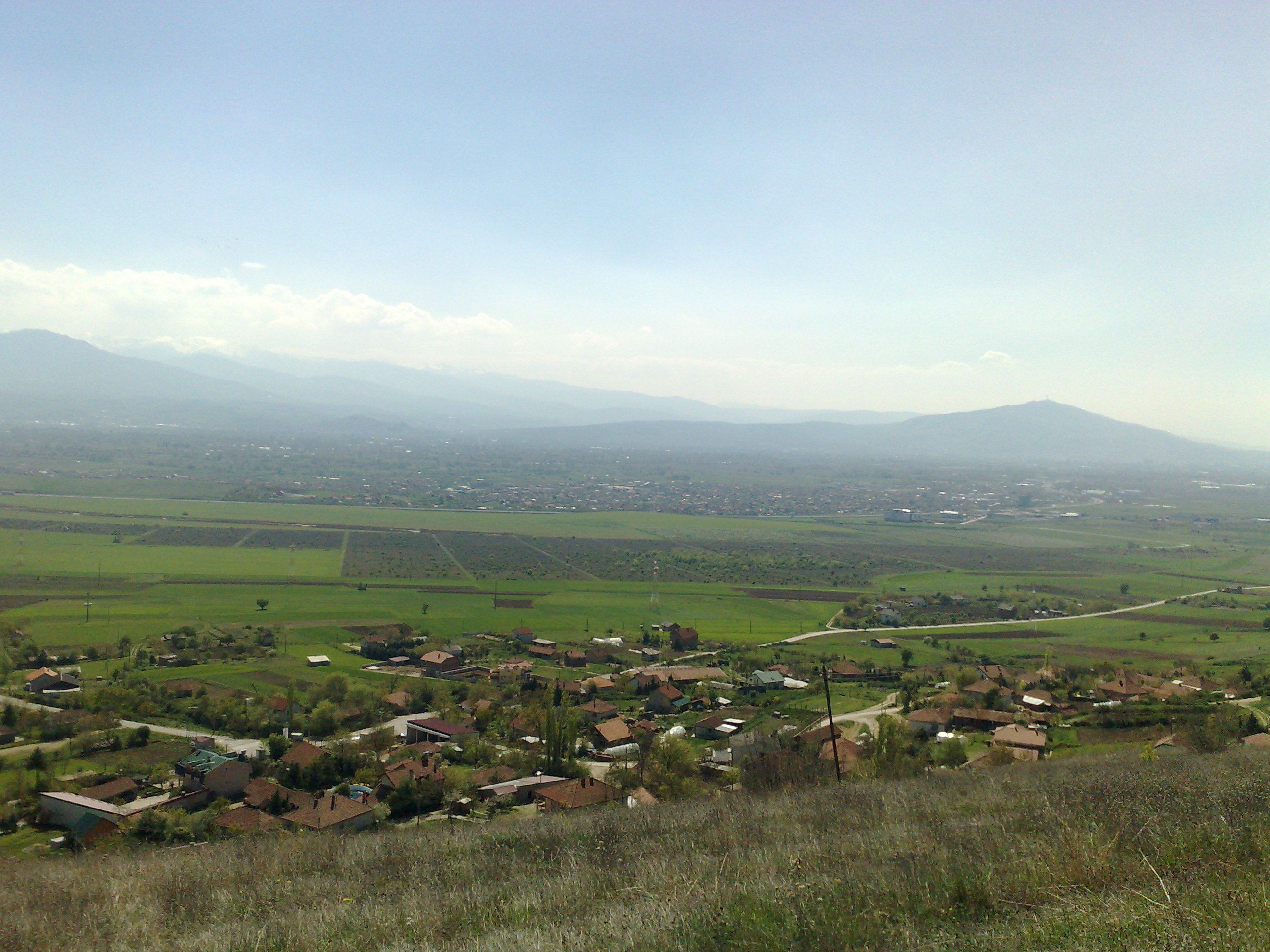 Village of Ajvatovci, Ilinden Municipality, Macedonia